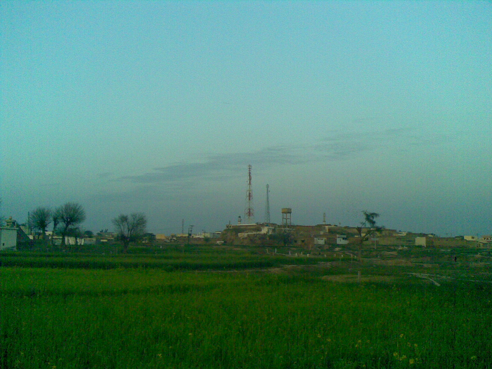 Gulyana